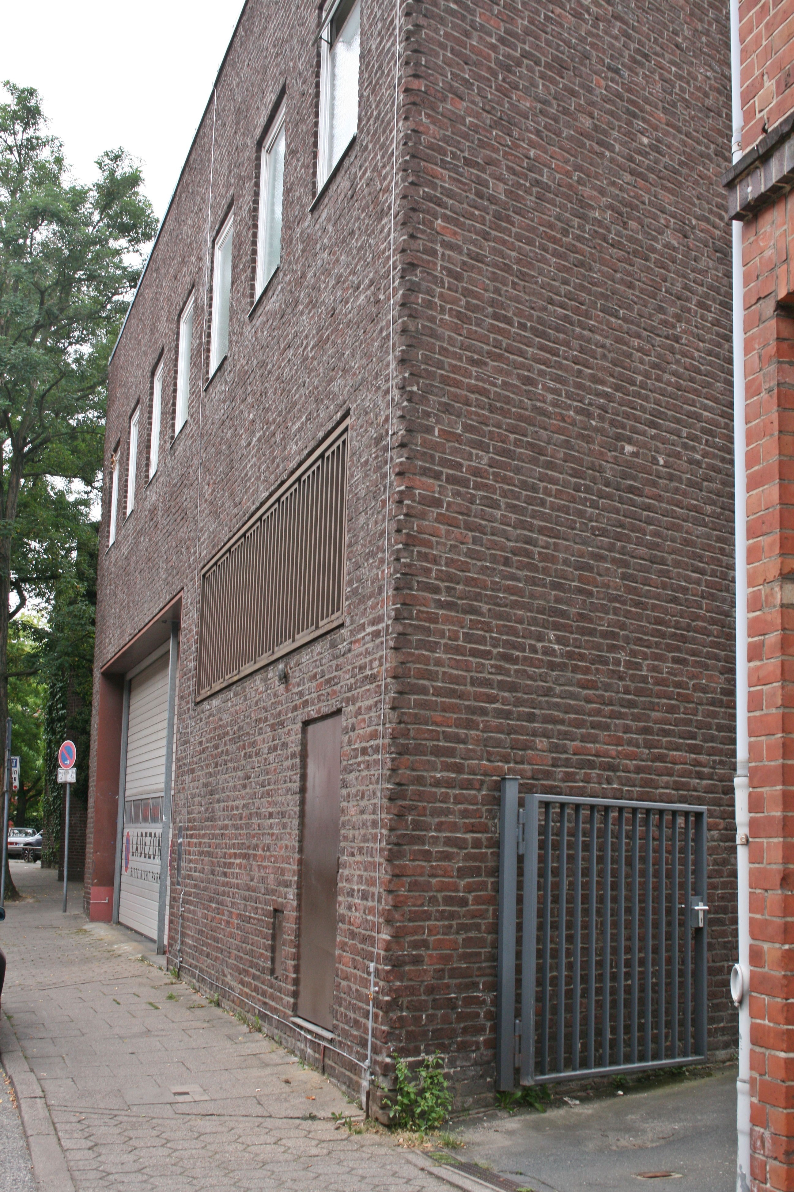 The building Hinterm Graben 11 in Hamburg-Bergedorf, with the Stolperstein for Max Anton Schlichting